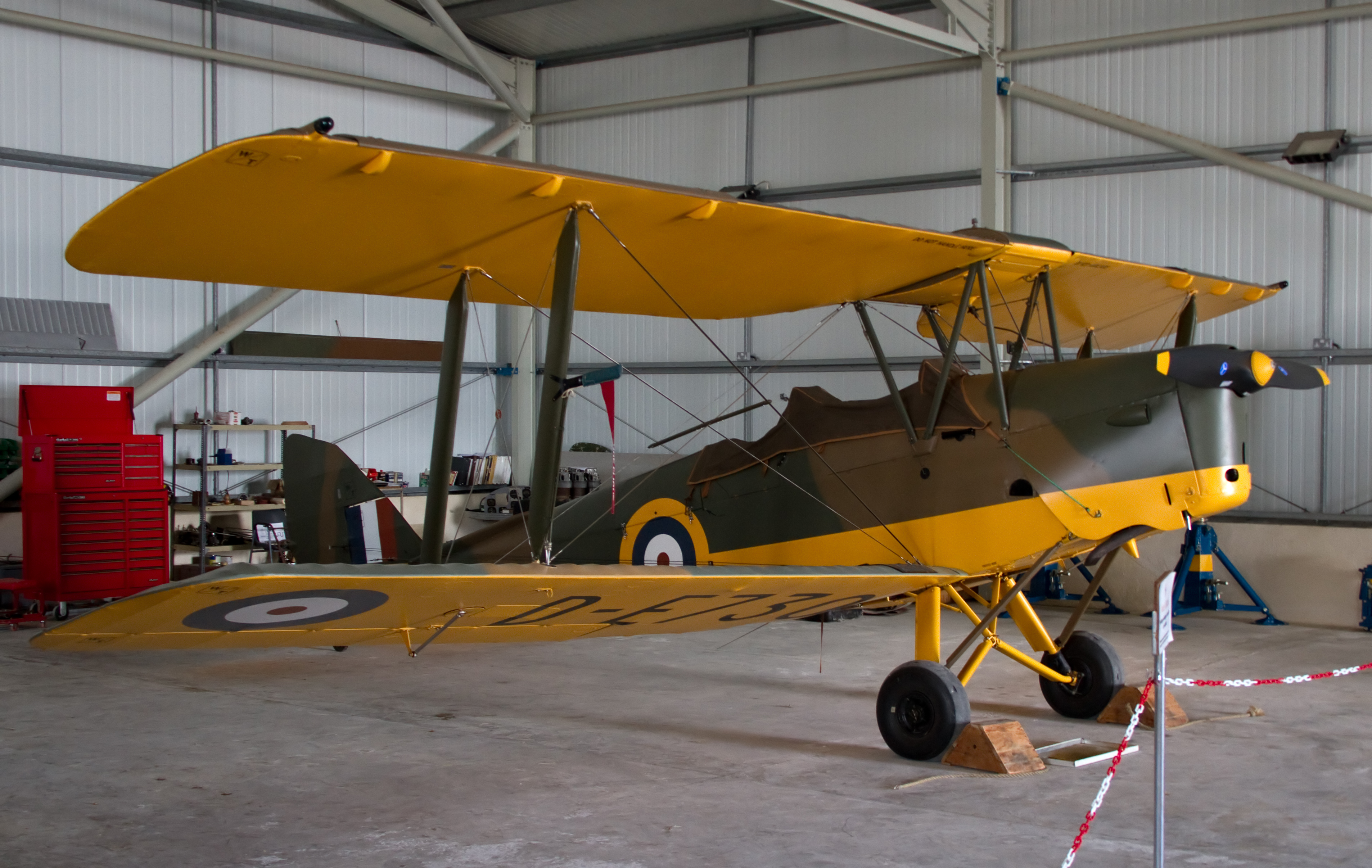 De Havilland Tiger Moth D-E730, at Malta Aviation Museum.